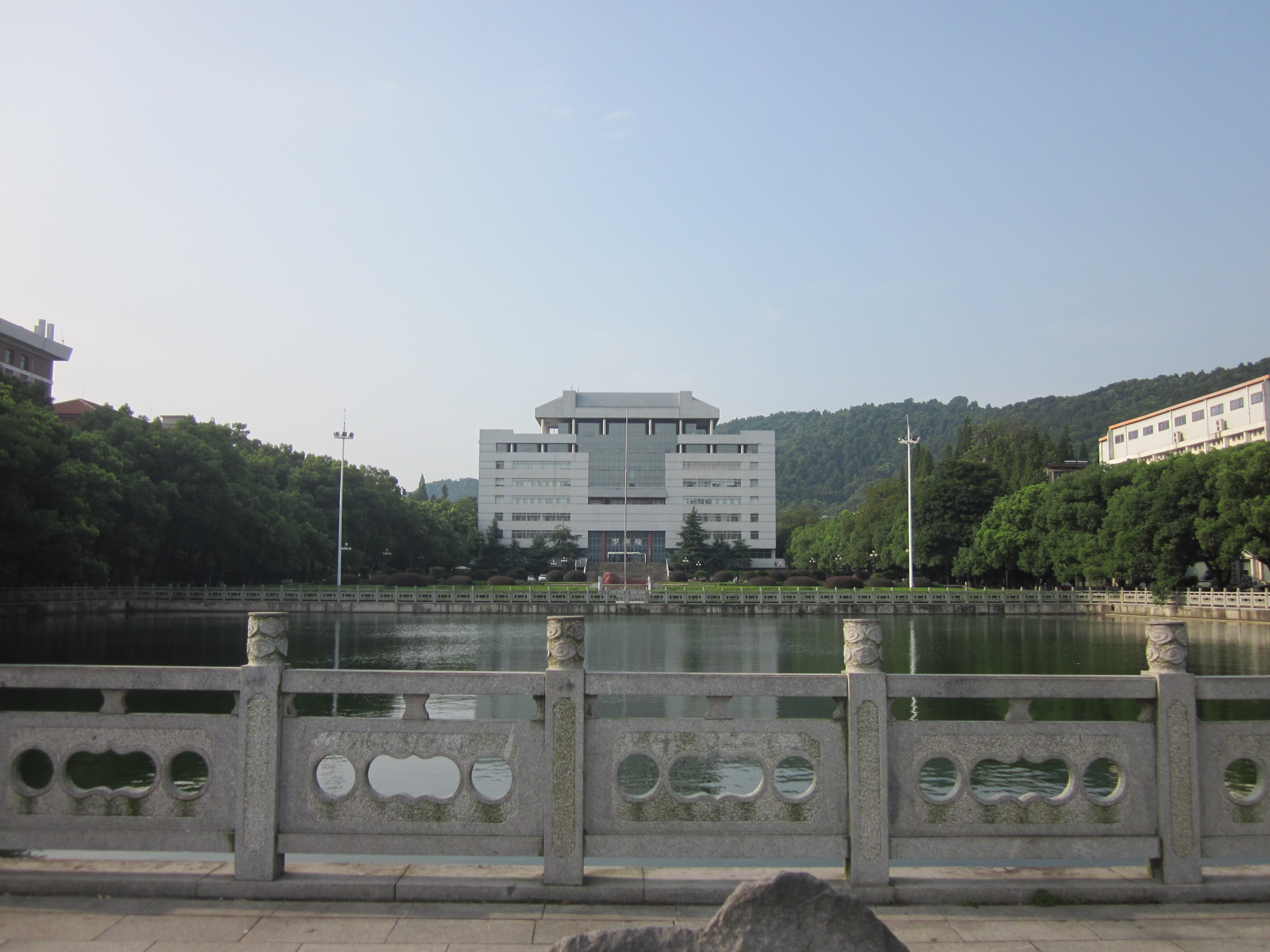 Central South University (CSU